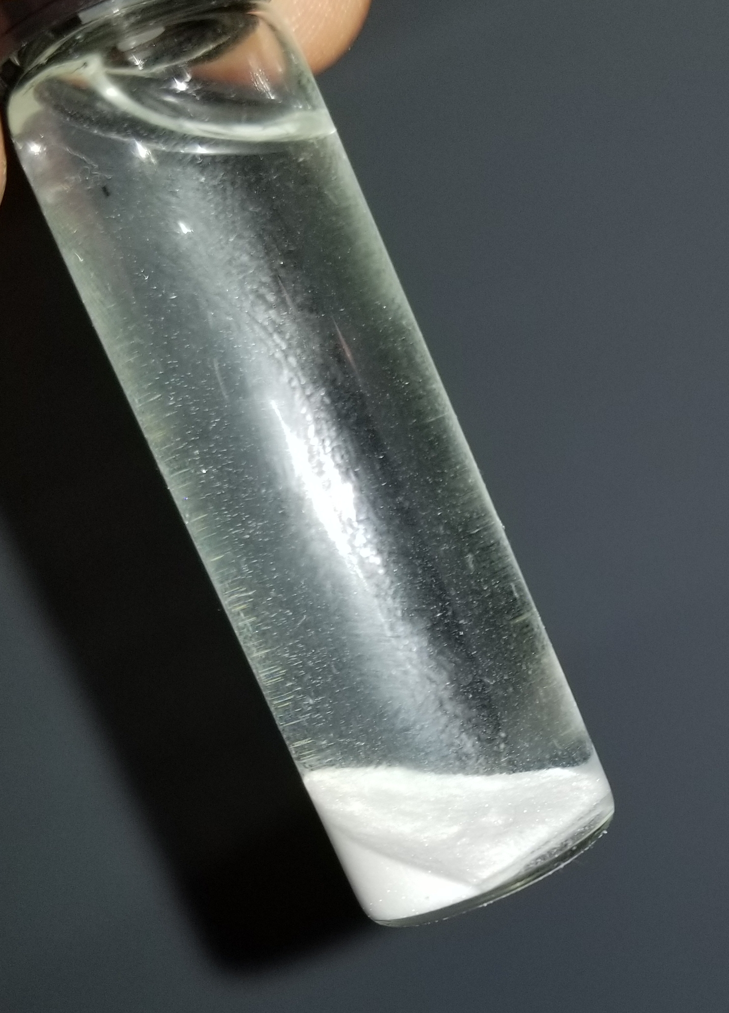 A white precipitate of Copper(I) Chloride suspended in a solution of Ascorbic Acid in a 2 dram vile.